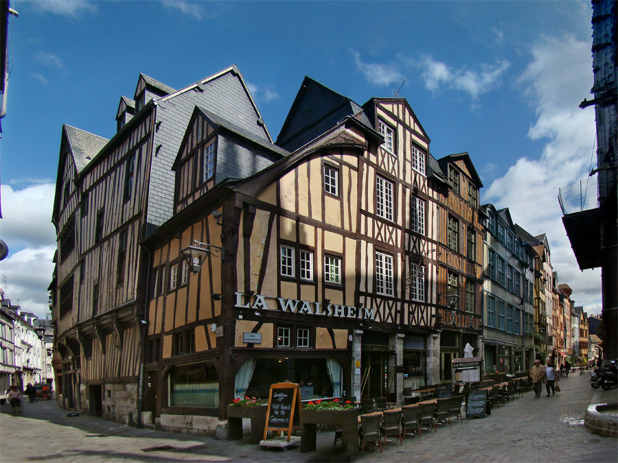 Rouen, Seine-Maritime, Normandie, France. At the corner of Martainville and Damiette streets.